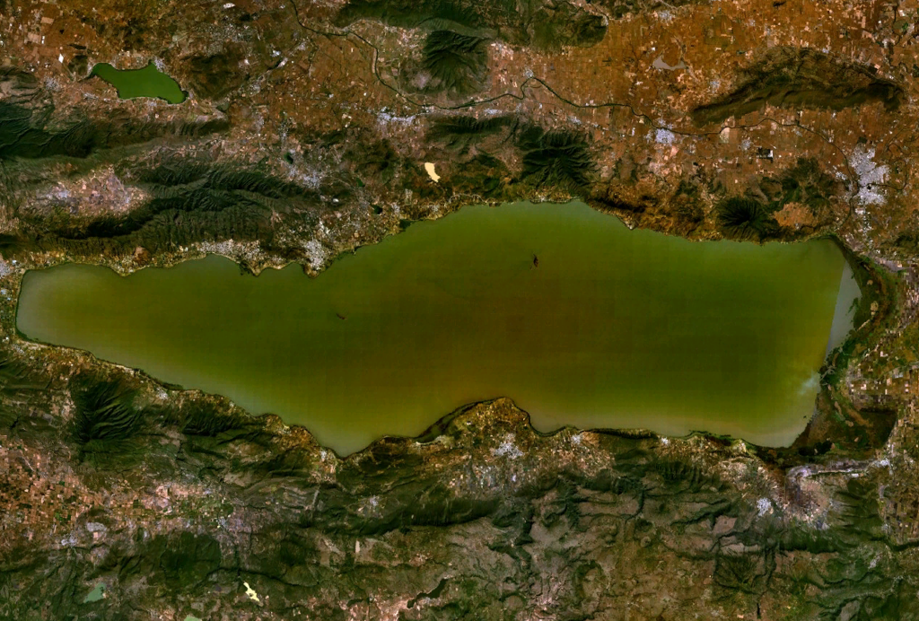 Lake Chapala, Mexico – NASA NLT Landsat 7 (Visible Color) Satellite Image